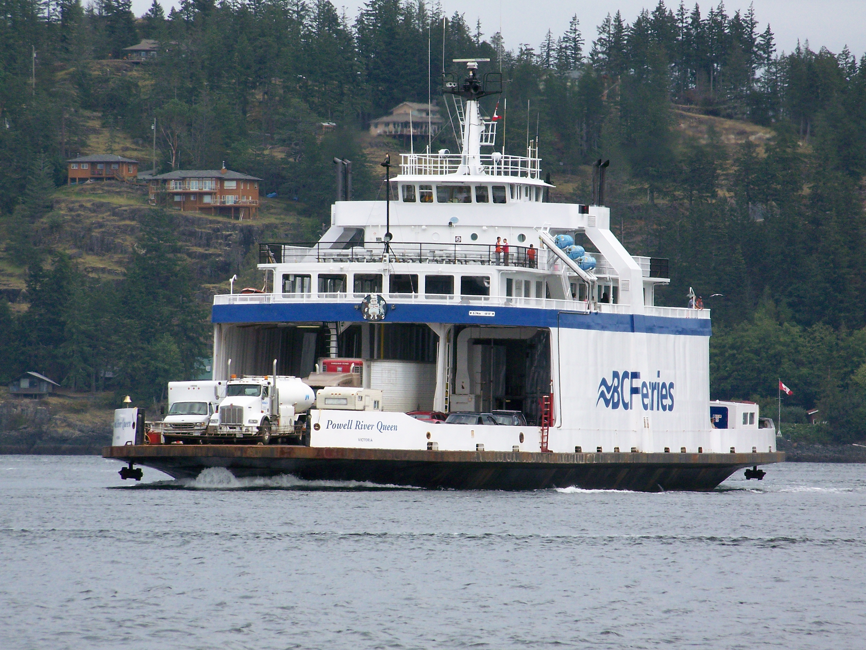 Powell River Queen - Aug 30/07